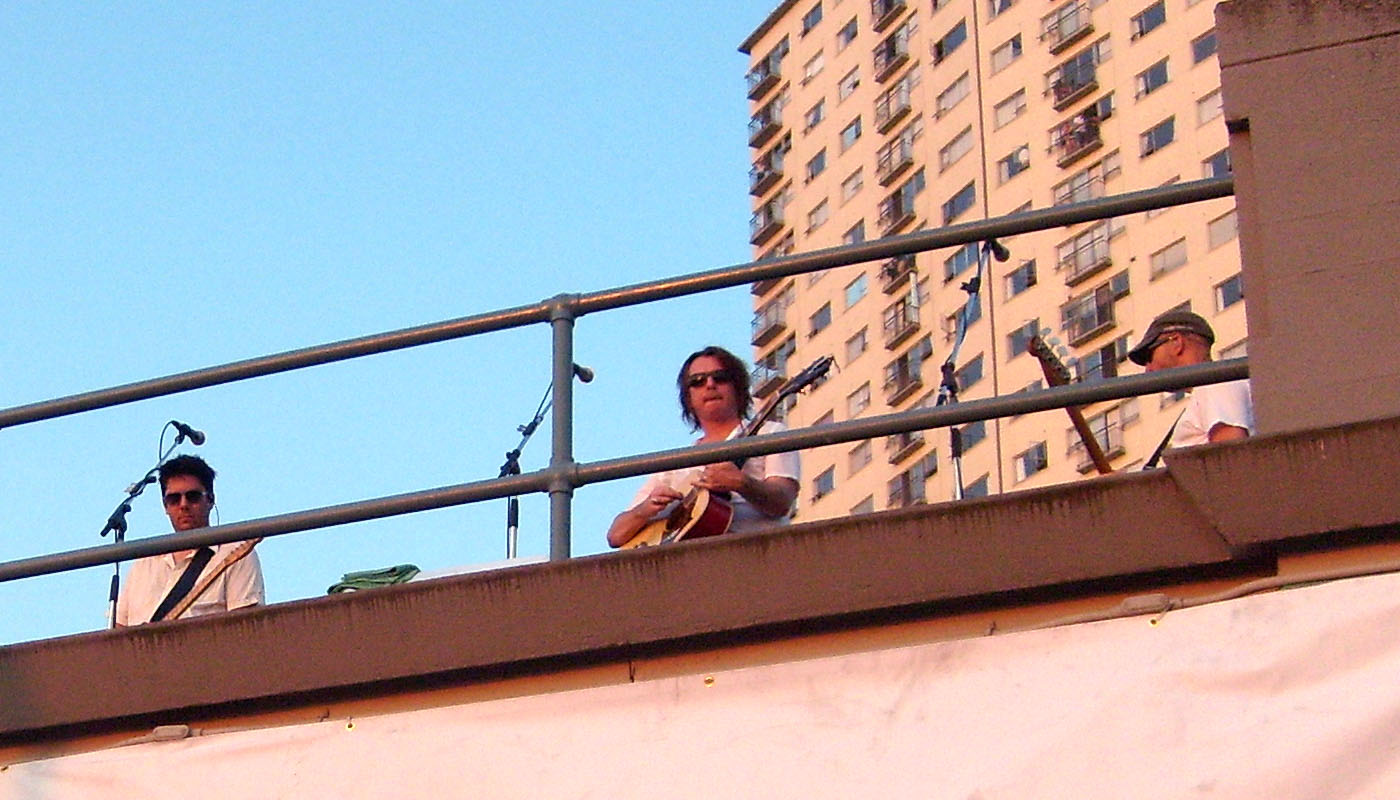 The Canadian band 54-40; from left to right: Dave Genn, Neil Osborne & Brad Merritt